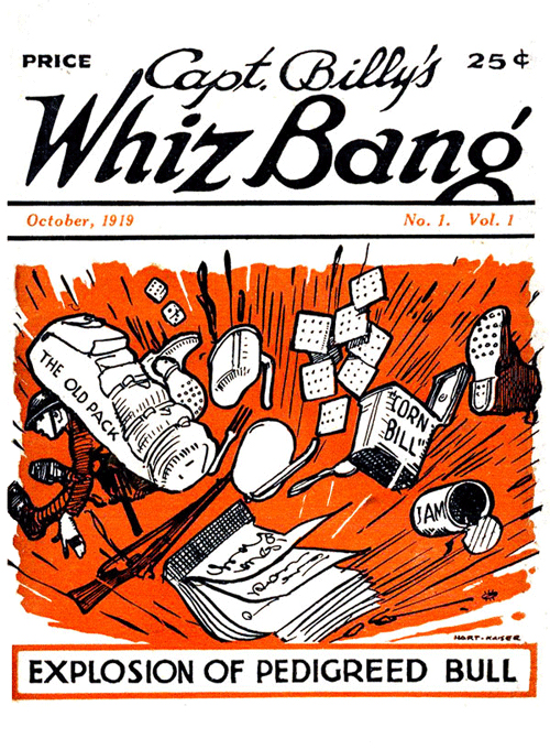 Capt. Billy's Whiz Bang